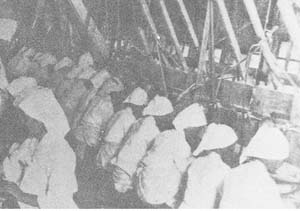 Women working in a rice mill factory at Incheon ruled by Japanese at 1920s